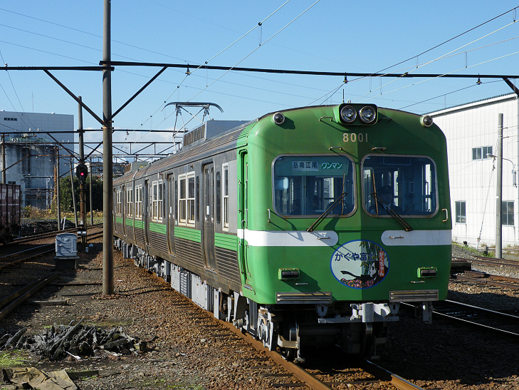 Class 8000 of Gakunan railway at Hina Sta., Shizuoka, Japan.